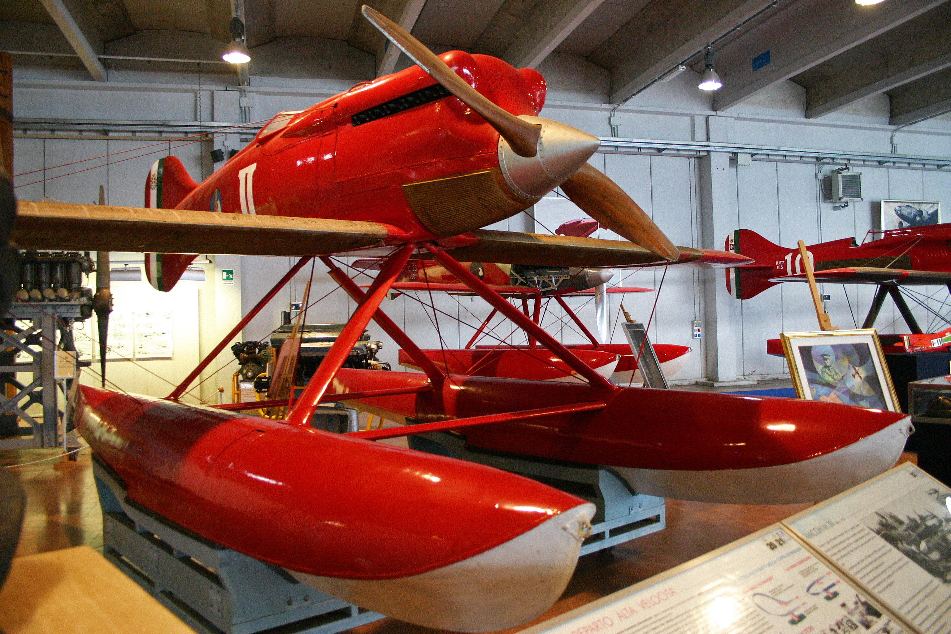 Displayed in Hangar VELO. Won the 1926 Schneider Cup, held in Norfolk USA, with an average speed of 247.5mph.